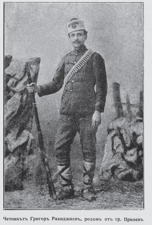 Bulgarian revolutionary Grigor Rakidzhiev from Prilep